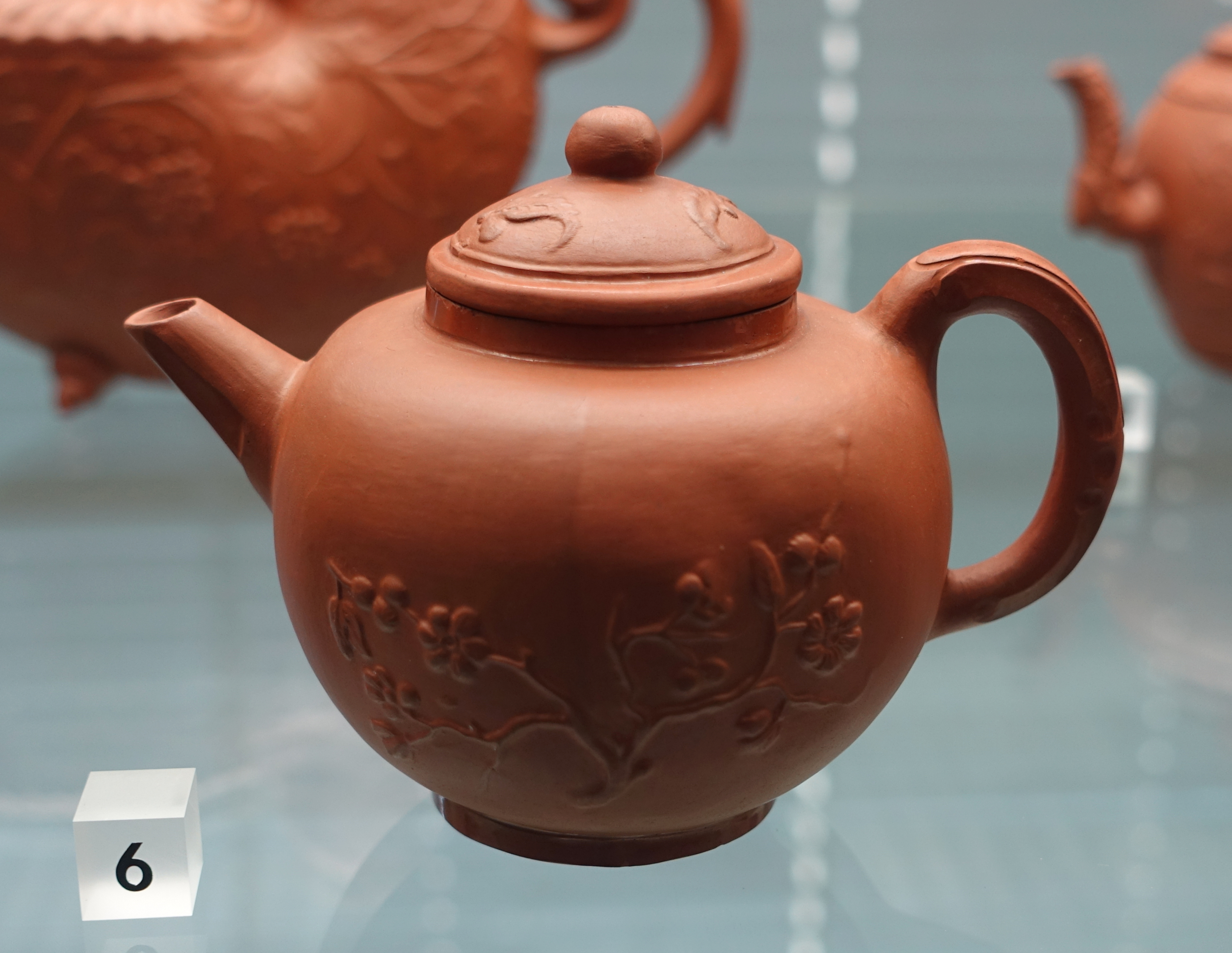 Exhibit in the Germanisches Nationalmuseum - Nuremberg, Germany.